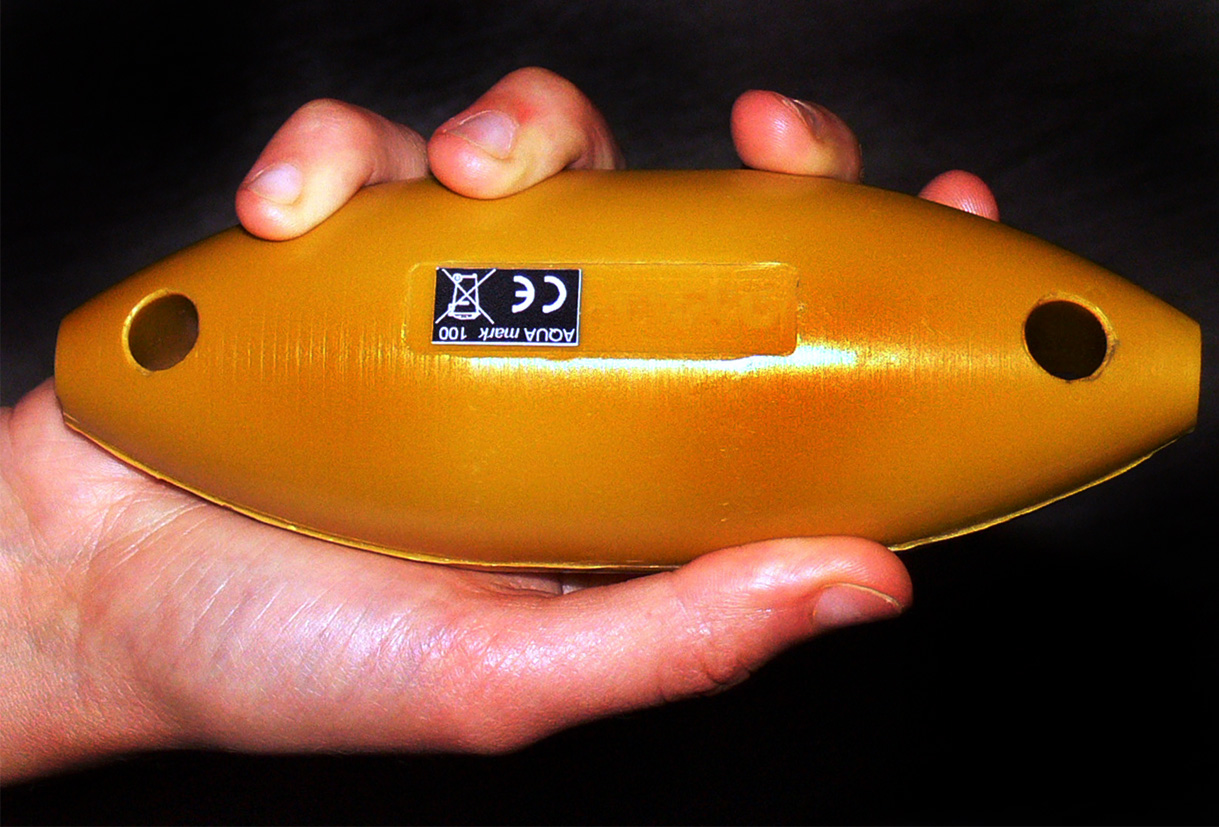 Pinger, Acoustic deterrent device.